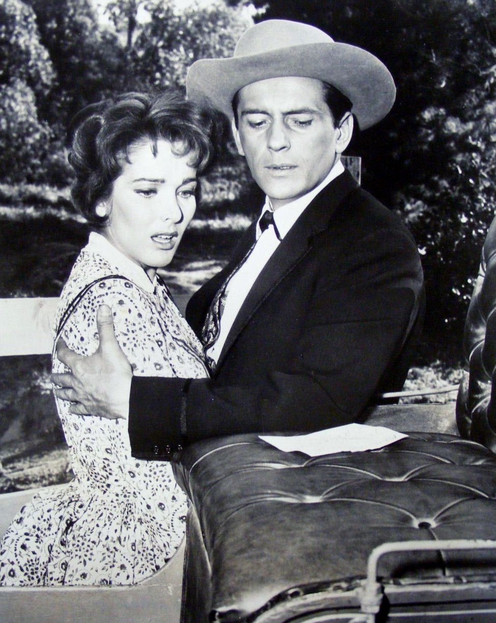 Photo of Jack Kelly as Bart Maverick and Julie Adams from the television program Maverick.